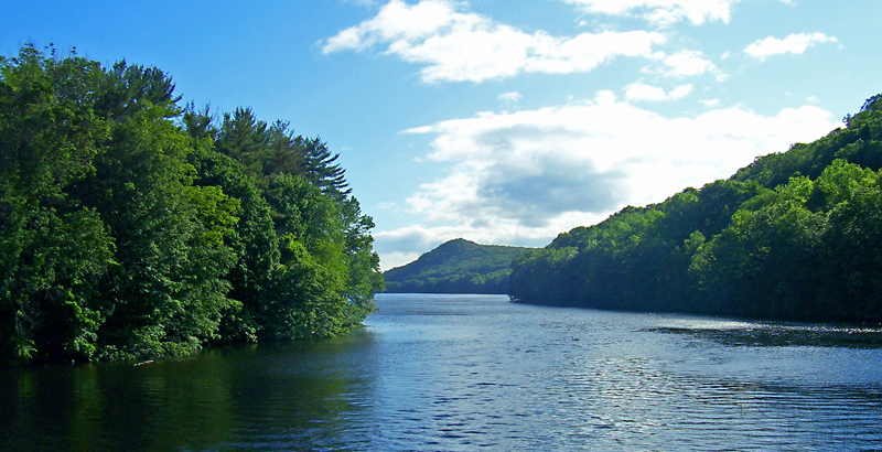 Photographed by Daniel Case 2006-06-10